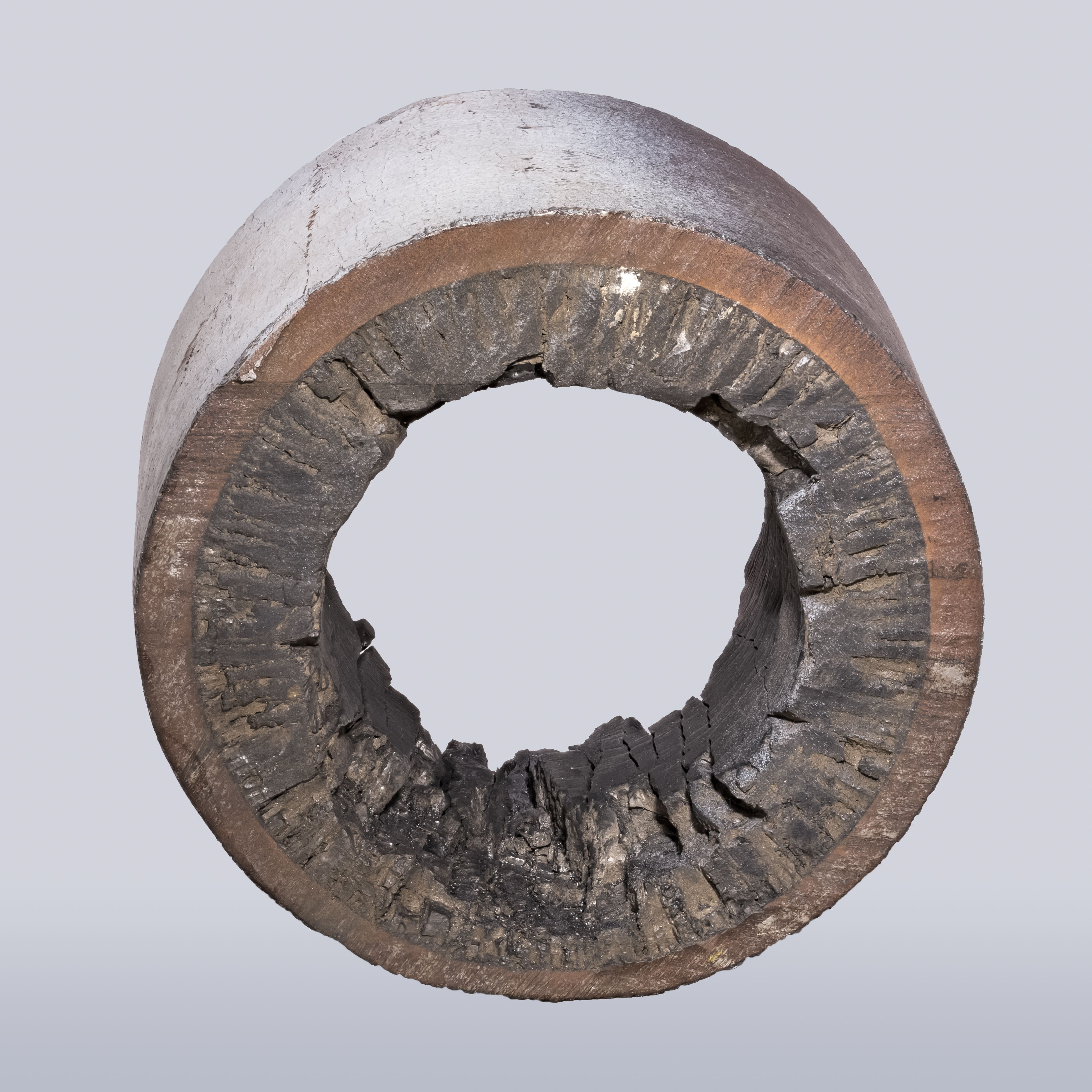 Scaling and pipe crack on the flame side of a 12 CrMo 19 5 steel pipe